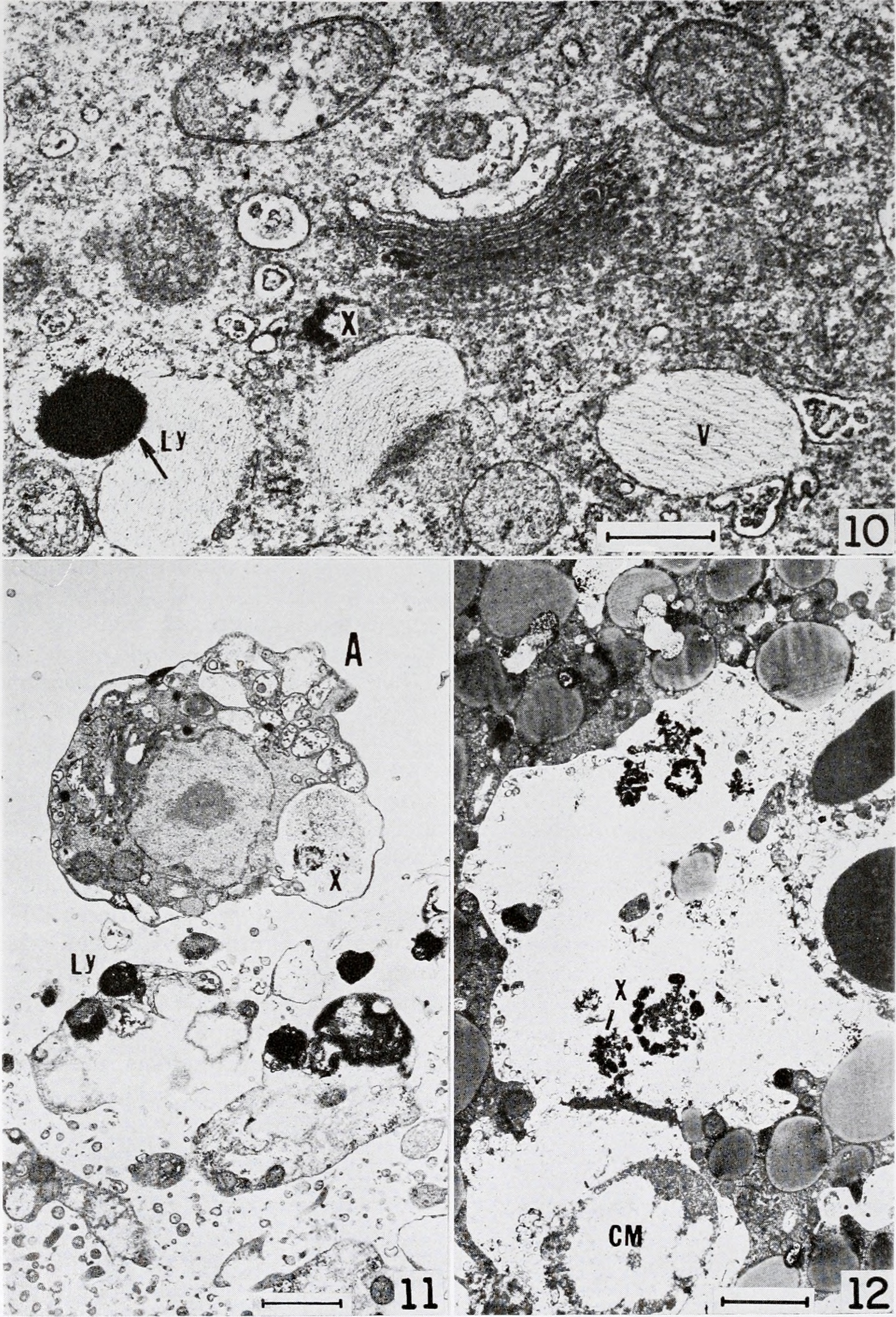 Title: The Biological bulletin Year: [1] (s) Authors: Marine Biological Laboratory (Woods Hole, Mass. ); Marine Biological Laboratory (Woods Hole, Mass. ). Annual report 1907/08-1952; Lillie, Frank Rattray, 1870-1947; Moore, Carl Richard, 1892-; Redfield, Alfred Clarence, 1890-1983 Subjects: Biology; Zoology; Biology; Marine Biology Publisher: Woods Hole, Mass. : Marine Biological Laboratory Text Appearing Before Image: 446 O. R. ANDERSON AND A. W. H. B£ Text Appearing After Image: FIGURE 10. Lysosomes originate in the Golgi apparatus as shown by the presence of •chemical reaction product ( X ) within the peripheral saccules of the Golgi and in nearby